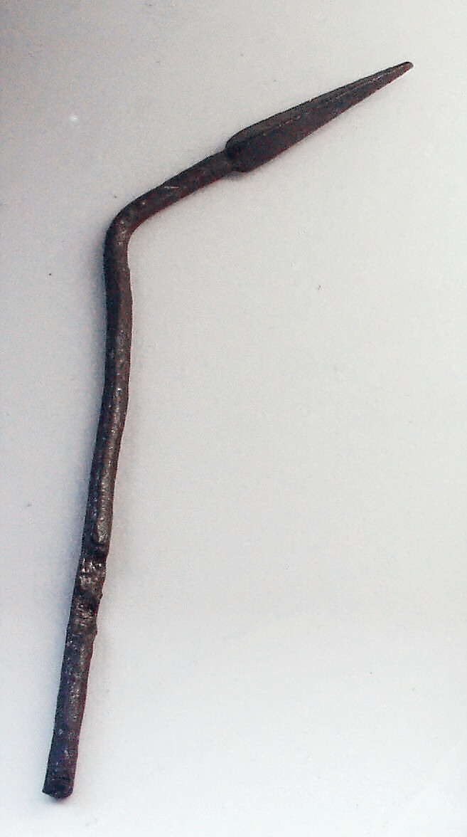 Cambodunum Pilum